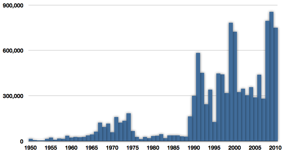 Fisheries capture of the Araucanian herring, Clupea bentincki, from 1950 to 2010 as reported by the FAO. Data source FAO fisheries